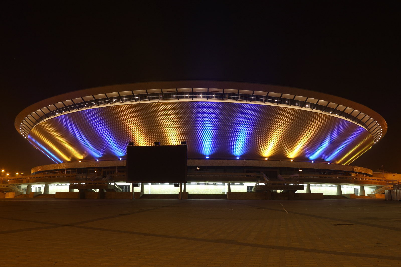 Katowice- Spodek new illumination.